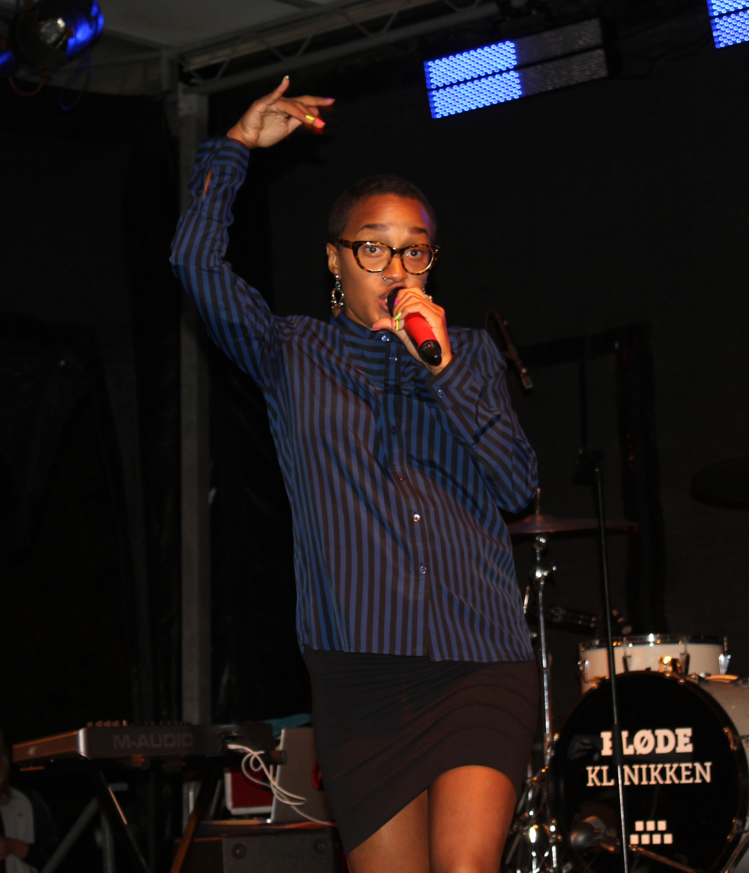 Barbara Moleko is a Danish singer and songwriter, performing at Kolding Kulturnat.(Culture Night in Kolding, Denmark.)